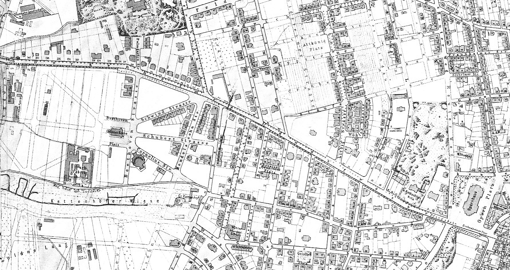 Frankfurt/M., Germany: Map of Bockenheimer Landstraße in the Westend. Detail of a town map created in 1887